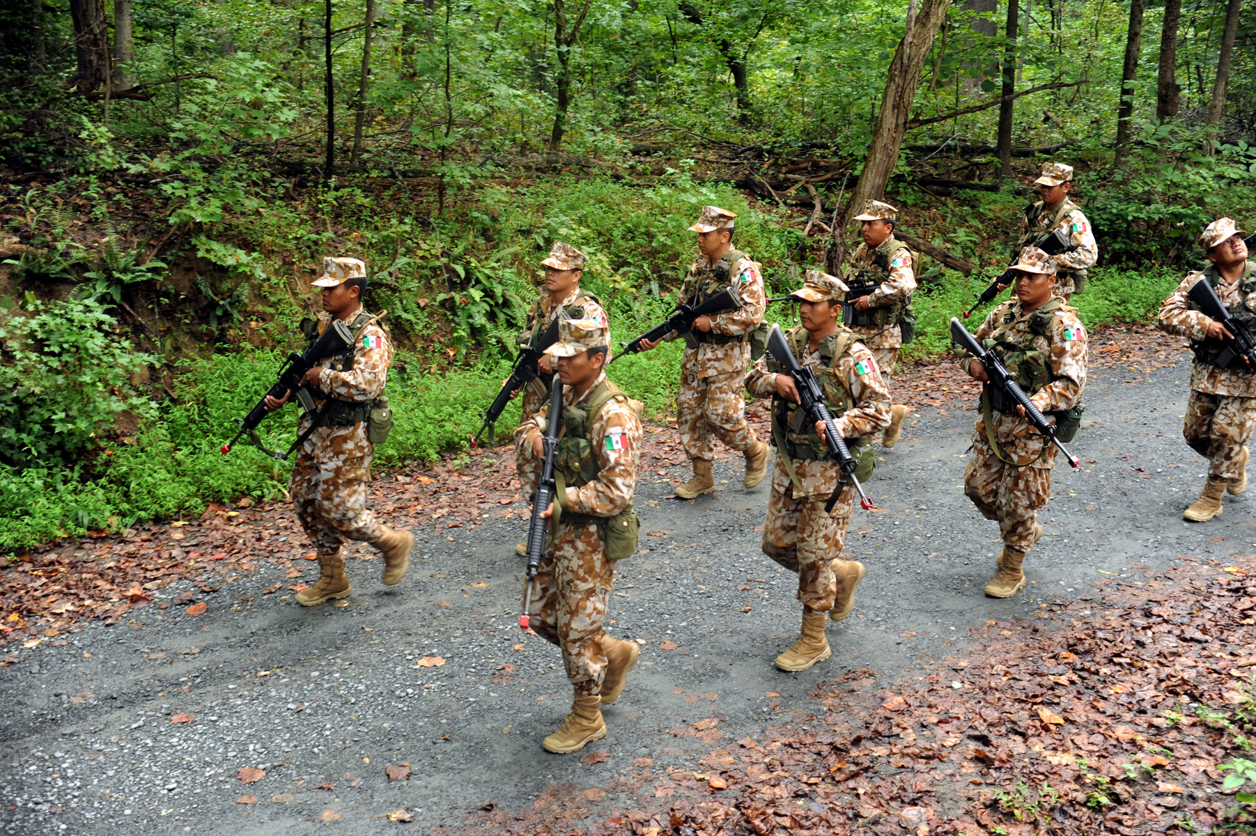 Mexican Marines step out on a patrol at Officer Candidates School, Marine Corps Base Quantico, Sept. 10, 2009. VRIN# 20090910-M-8345L-057.jpg